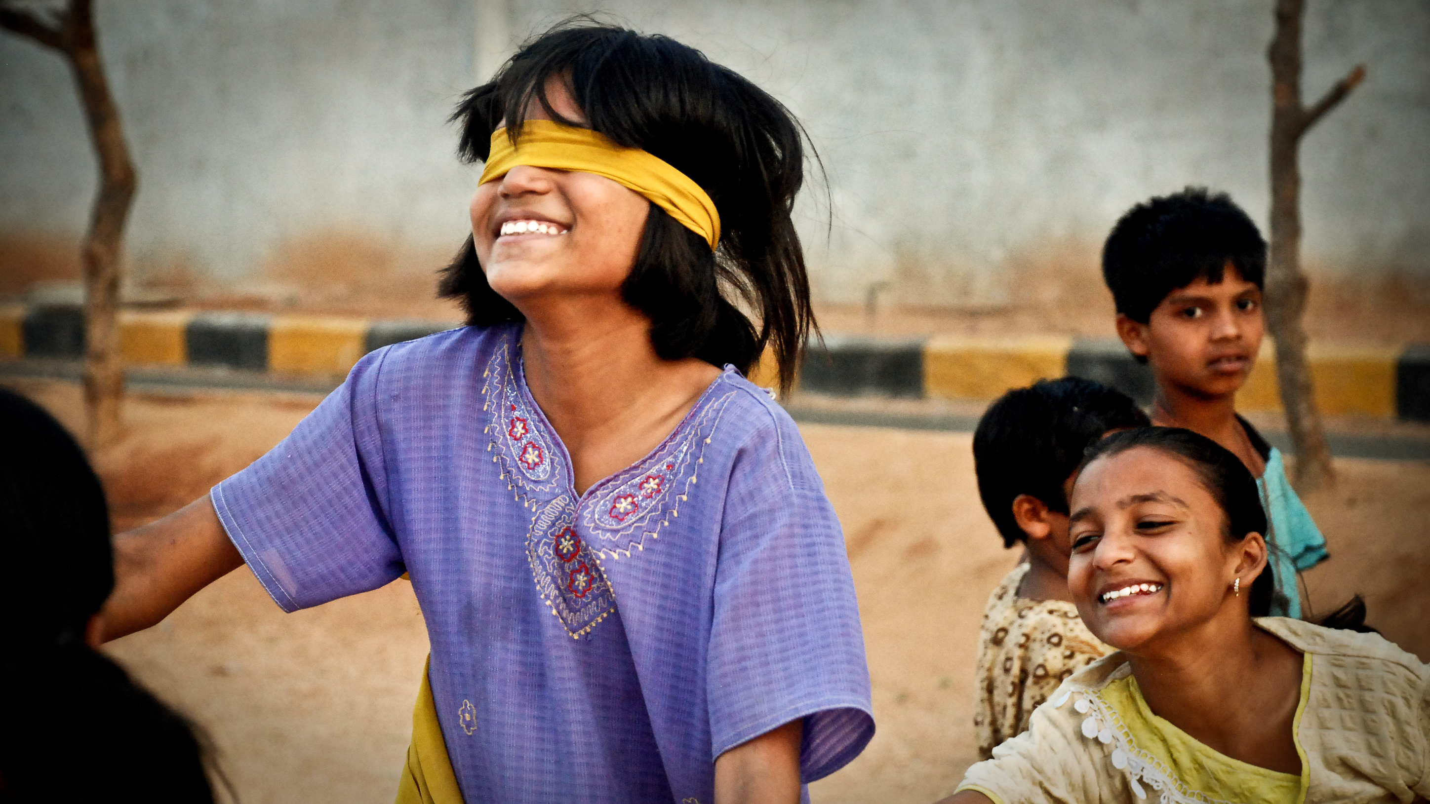 Blind man's buff, a popular game among children in India, being played on an Indian street